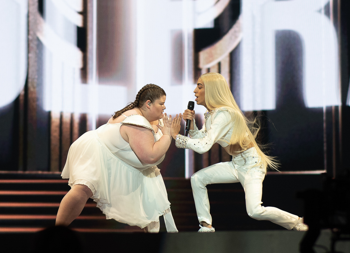 At the 2019 Eurovision Song Contest Grand Final Dress Rehearsal